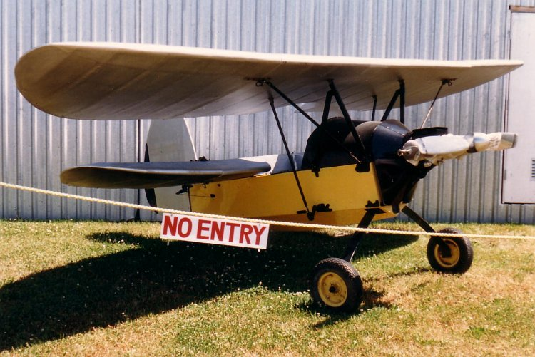 Mignet HM.290 Pou du Ciel ("Flying Flea") at the Canadian Museum of Flight